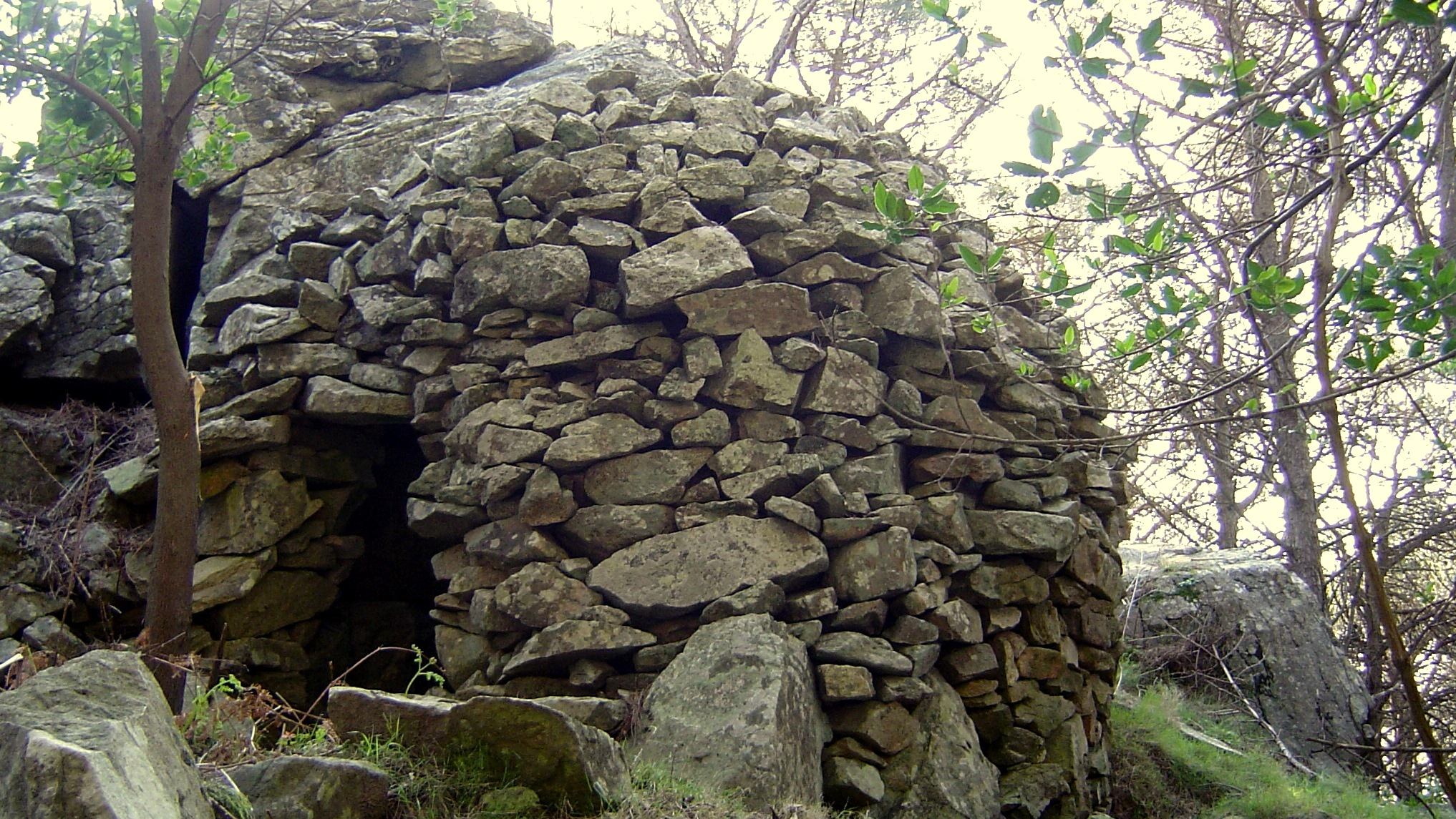 Elba island